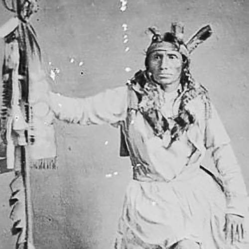 Taoyateduta, or Little Crow, a chief of the Dakota sioux.